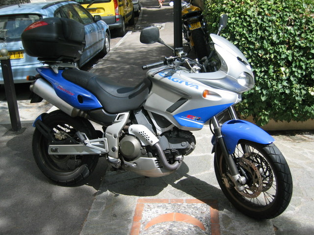 A photo of my 1999 Cagiva Gran Canyon motorcycle.